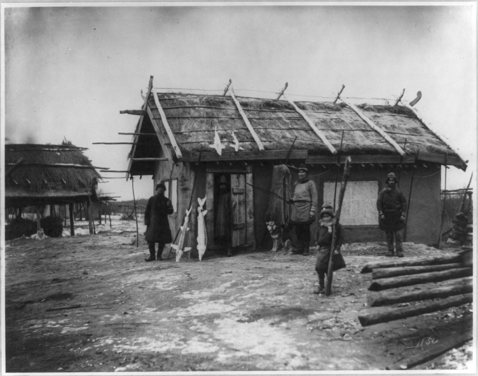 Title: Goldi village along the Amur River, north of Khabarovsk Physical description: 1 photographic print : gelatin silver ; 8 x 10 in. or smaller. Notes: Published as halftone in Harper's Weekly, 1897 (?), p. 809.; Gift; Colorado Historical Society; 1949.; Title from original negative jacket.; Forms part of: Jackson, William Henry, 1843-1942. World's Transportation Commission photograph collection (Library of Congress).; Photographic print made by LC from Jackson's vintage film negative.